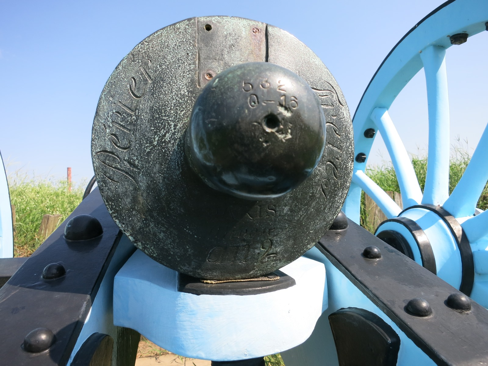 Photo is a close-up of the breech of a French-made 4-pounder Gribeauval cannon at Battery 5 at Chalmette National Battlefield. The inscription at the bottom reads PARIS Nivose An 2 (21 December 1793-19 January 1794). Inscribed at the sides are Perier and Freres (Perier Brothers).